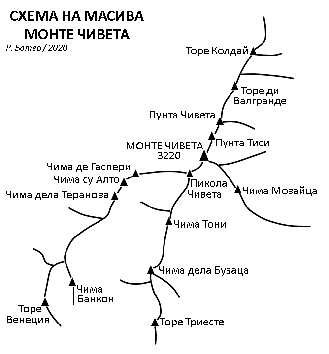 Plan of Monte Civetta massive